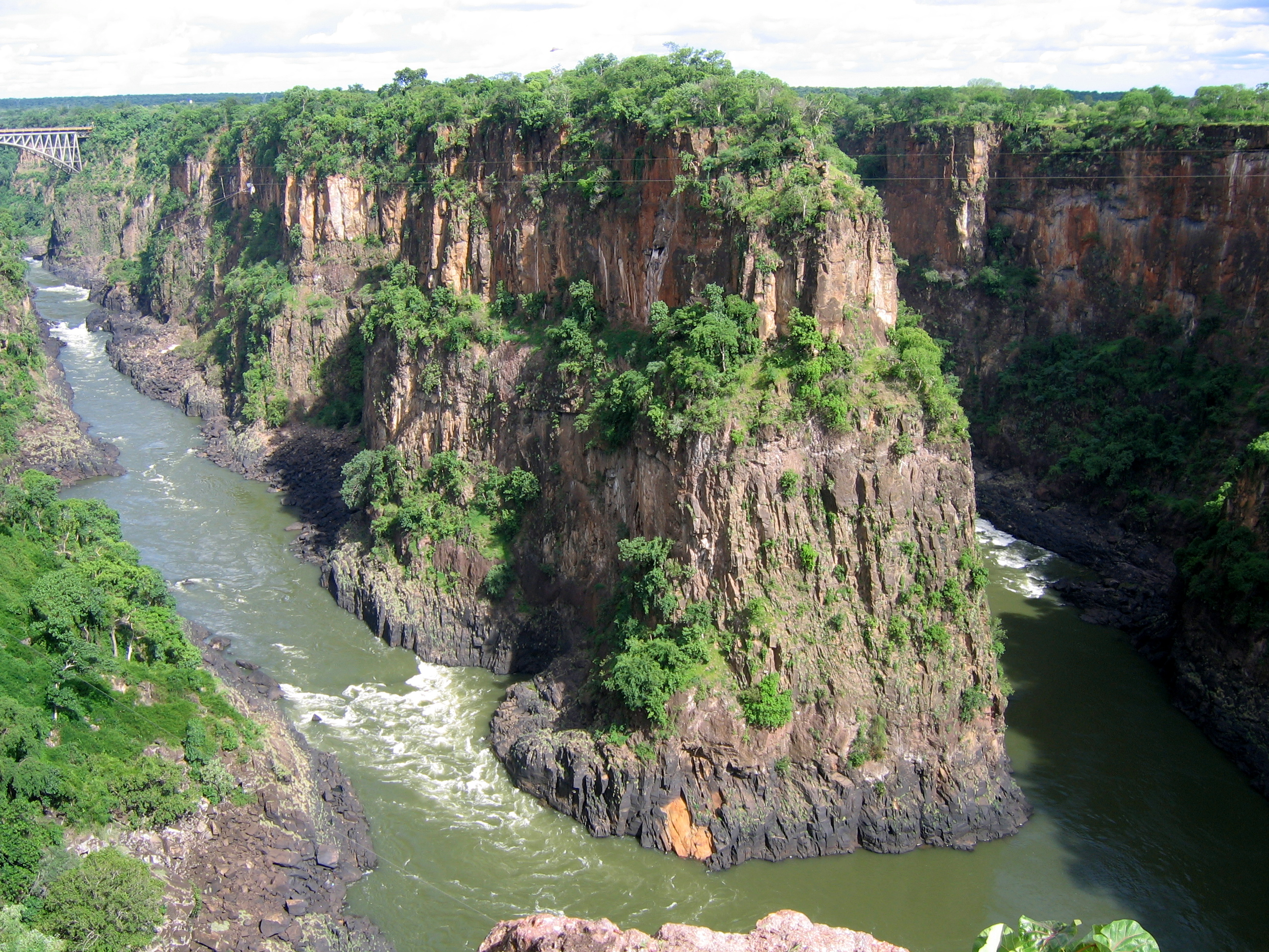 The Zambezi River near Victoria Falls